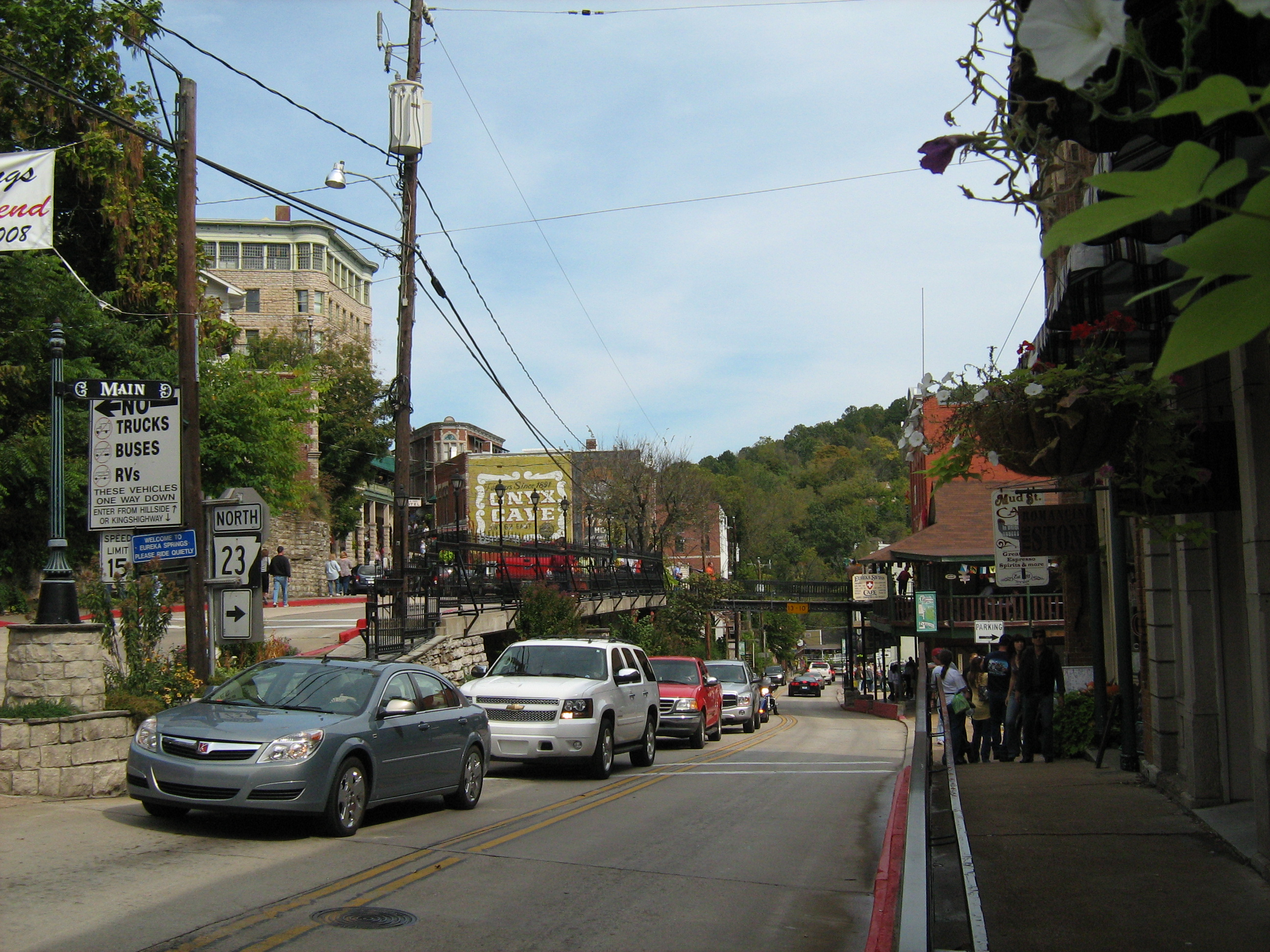 Main Street in downtown of Eureka Springs, Arkansas 72632 U.S.A.